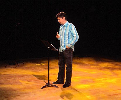 Author Shane Peacock on stage in Toronto.